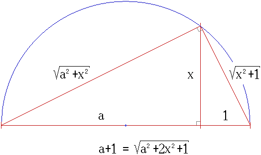 Straightedge and compass construction of the length x=√a, given the length a and the unit length. The proof relies on Thales's theorem (blue circle) to obtain a right triangle with hypothenuse length a+1, and on the Pythagorean theorem to set up equations about its height and side lengths. Their unique positive solution is x=√a.